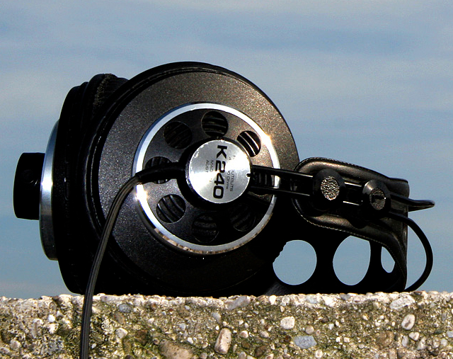 AKG K240 current product: AKG K240 MK II